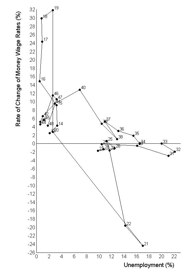 The relationship between the rate of change of wages and unemployment in the United Kingdom, 1913-1948 based on data from A W Phillips (1958) 'The Relation between Unemployment and the Rate of Change of Money Wage Rates in the United Kingdom, 1861-1957, Economica, Figure 9.